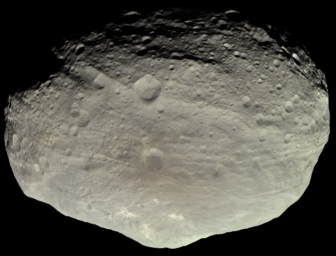 Vesta's portrait in color. Dawn had used red, green and blue filters to produce this approx. true color image